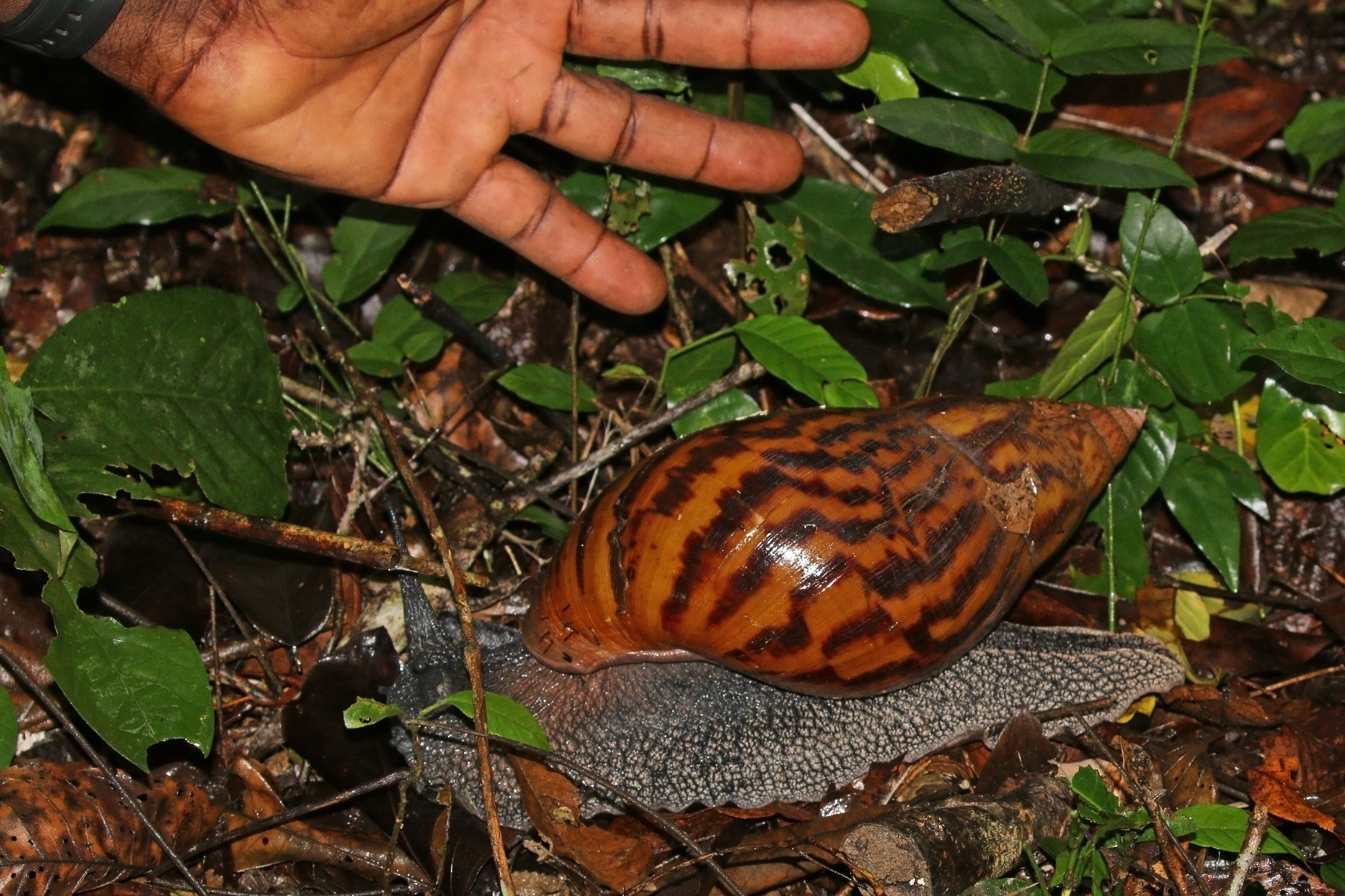 Giant tiger land snail (Achatina achatina) in Ghana, with hand to show its size